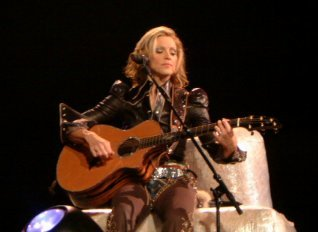 Madonna - Sept 2001 - Los Angeles